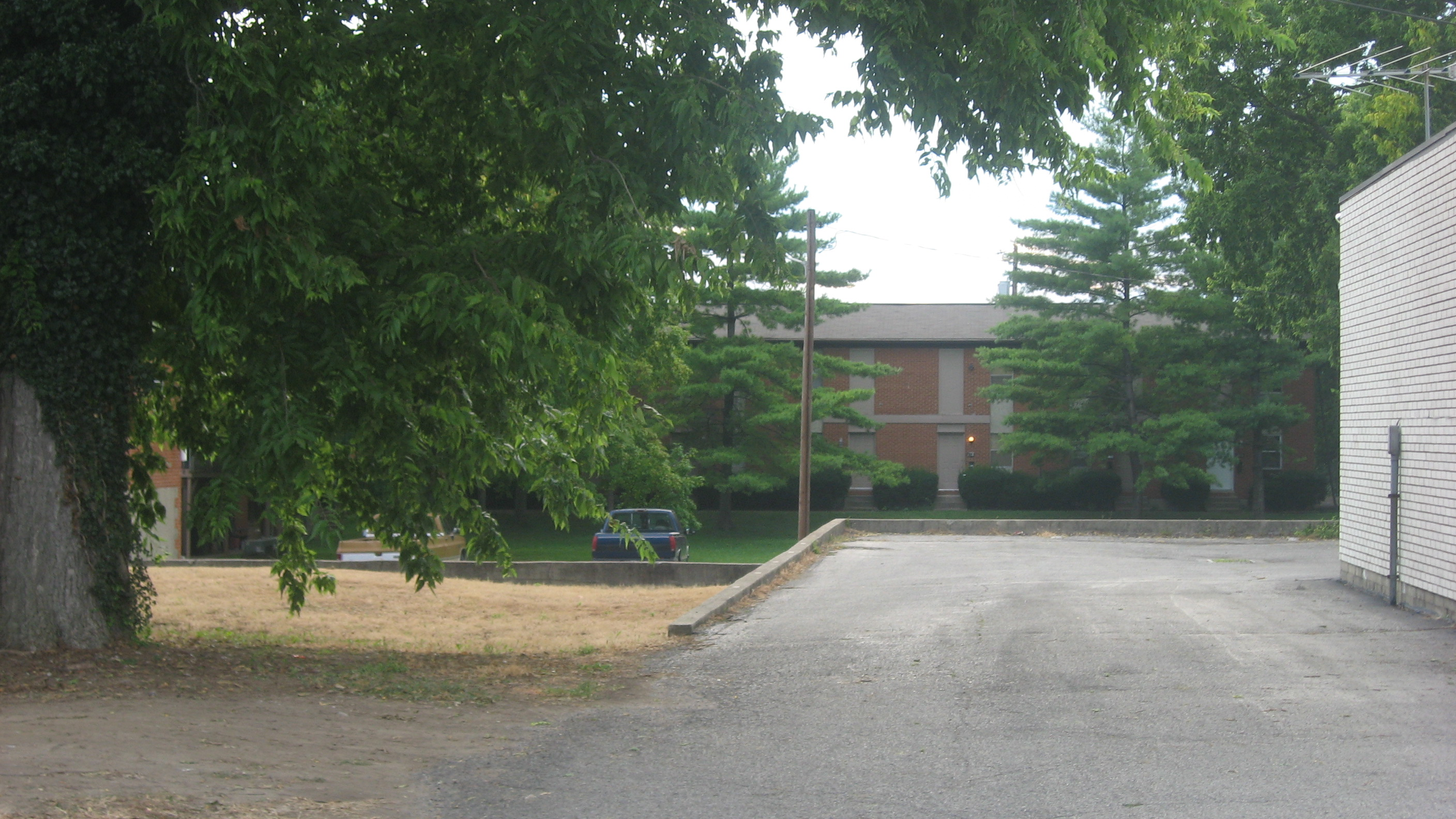 Open land on the site of the Symmes Mission Chapel, located at 5139 Pleasant Avenue (U.S. Route 127) in Fairfield, Ohio, United States. Built in 1843, the chapel was listed on the National Register of Historic Places in 1980; it has been destroyed, but it remains on the Register.